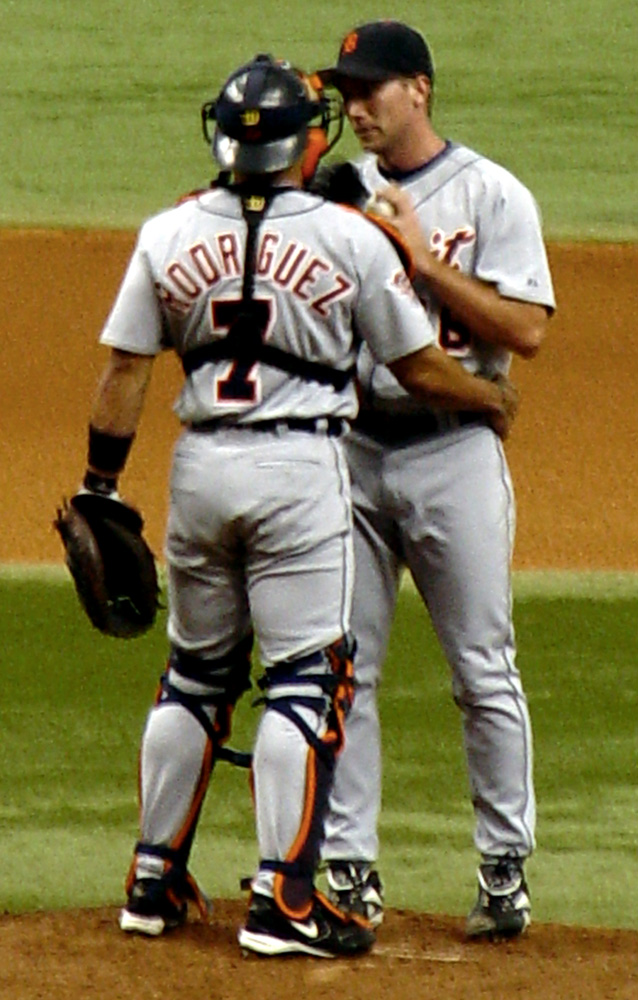 Ivan Rodgriguez talking with pitcher for the Tigers, July 11, 2005. Photo by Googie Man 18:35, 11 July 2005 . . Googie man . . 638×1000 (249 KB)